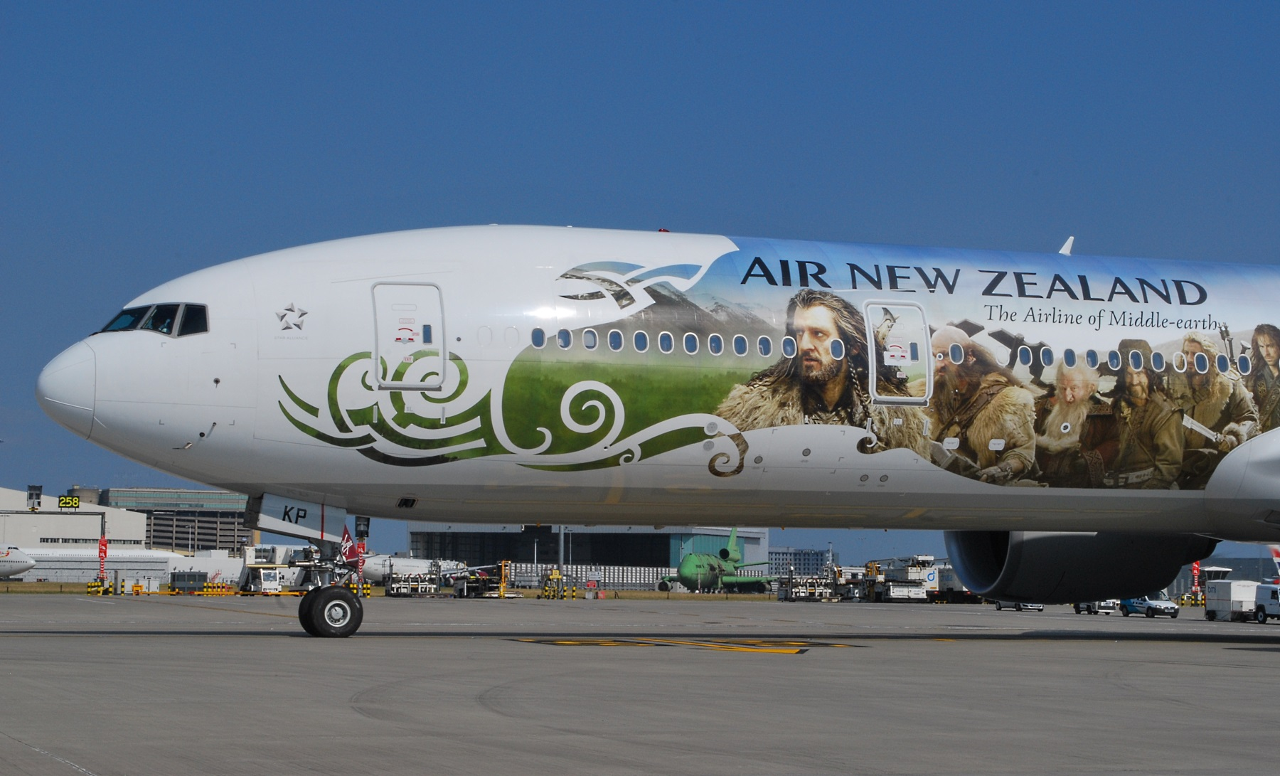 Air New Zealands 777-300 in "The Hobbit" c/s, preparing to taxi for departure